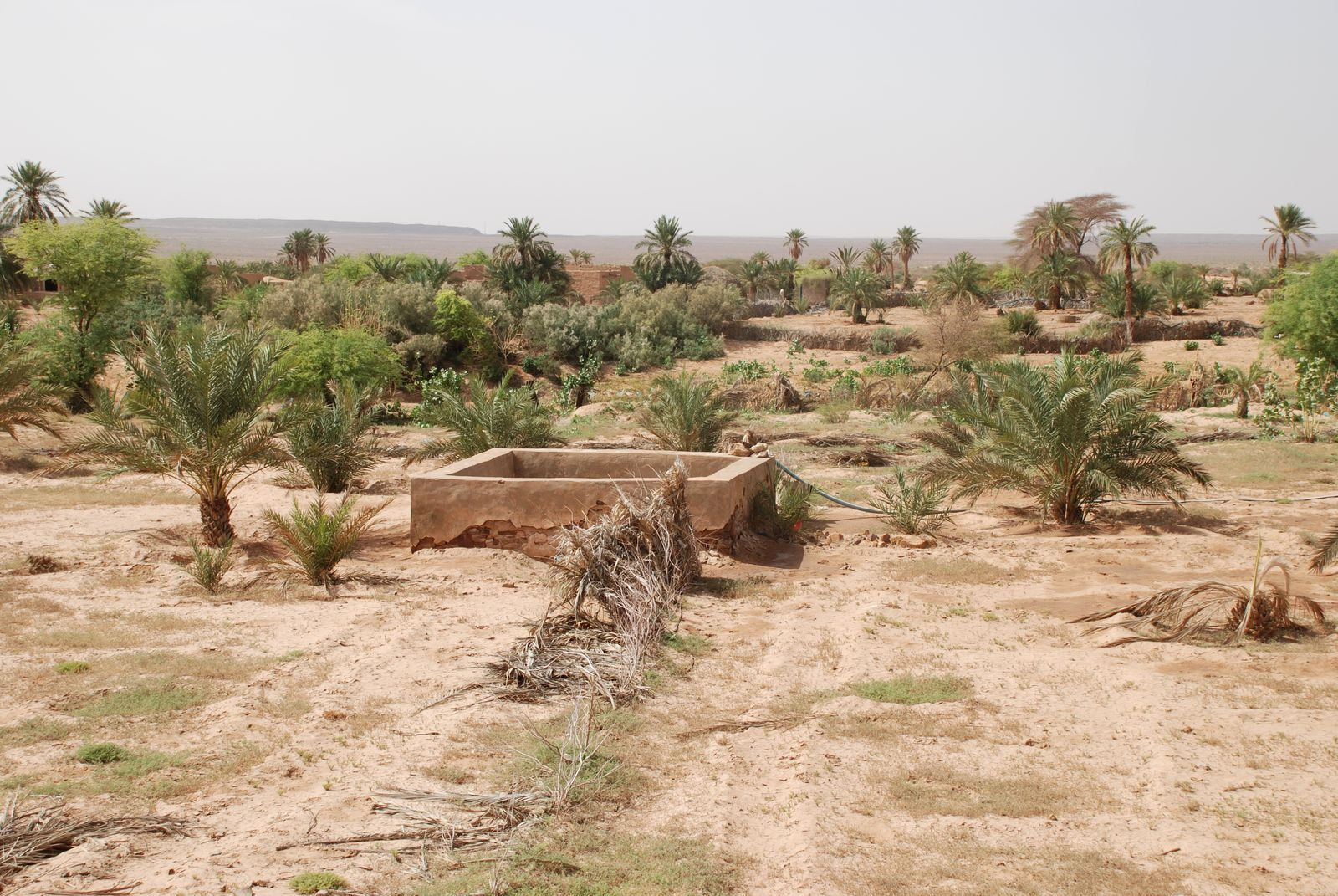 Atar, Mauritania, oasis